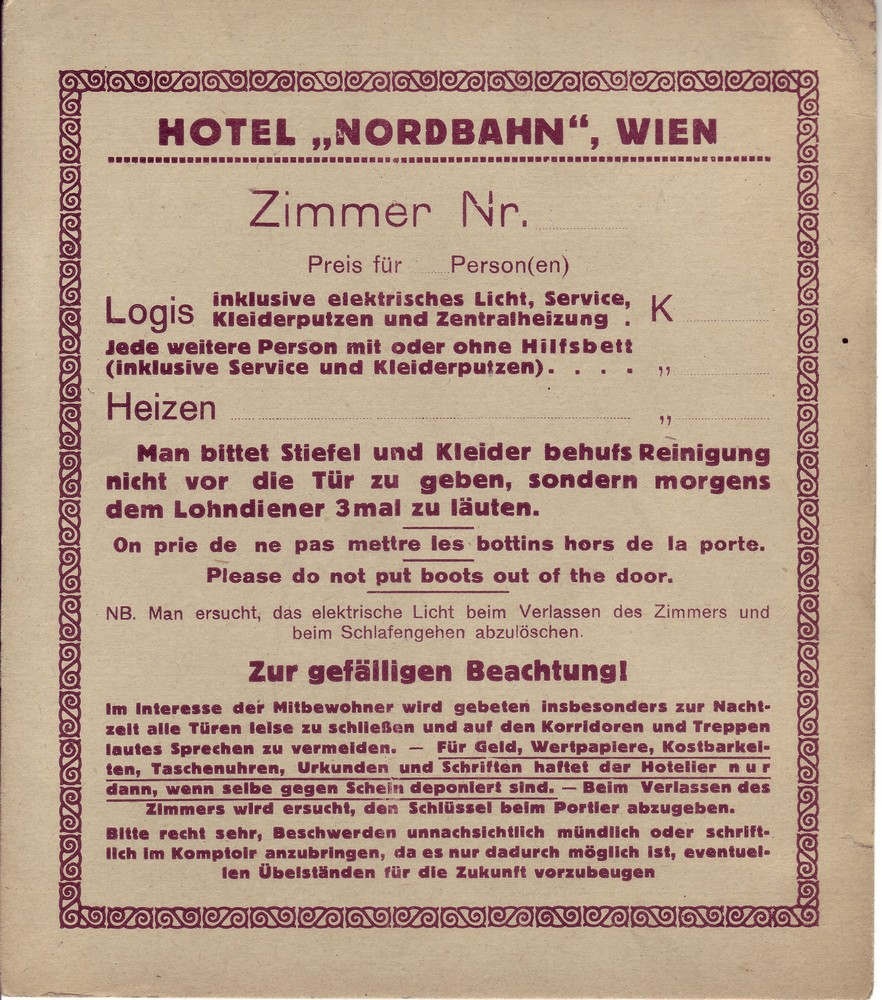 Historic hotel room information sign Hotel Nordbahn in Vienna Leopoldstadt